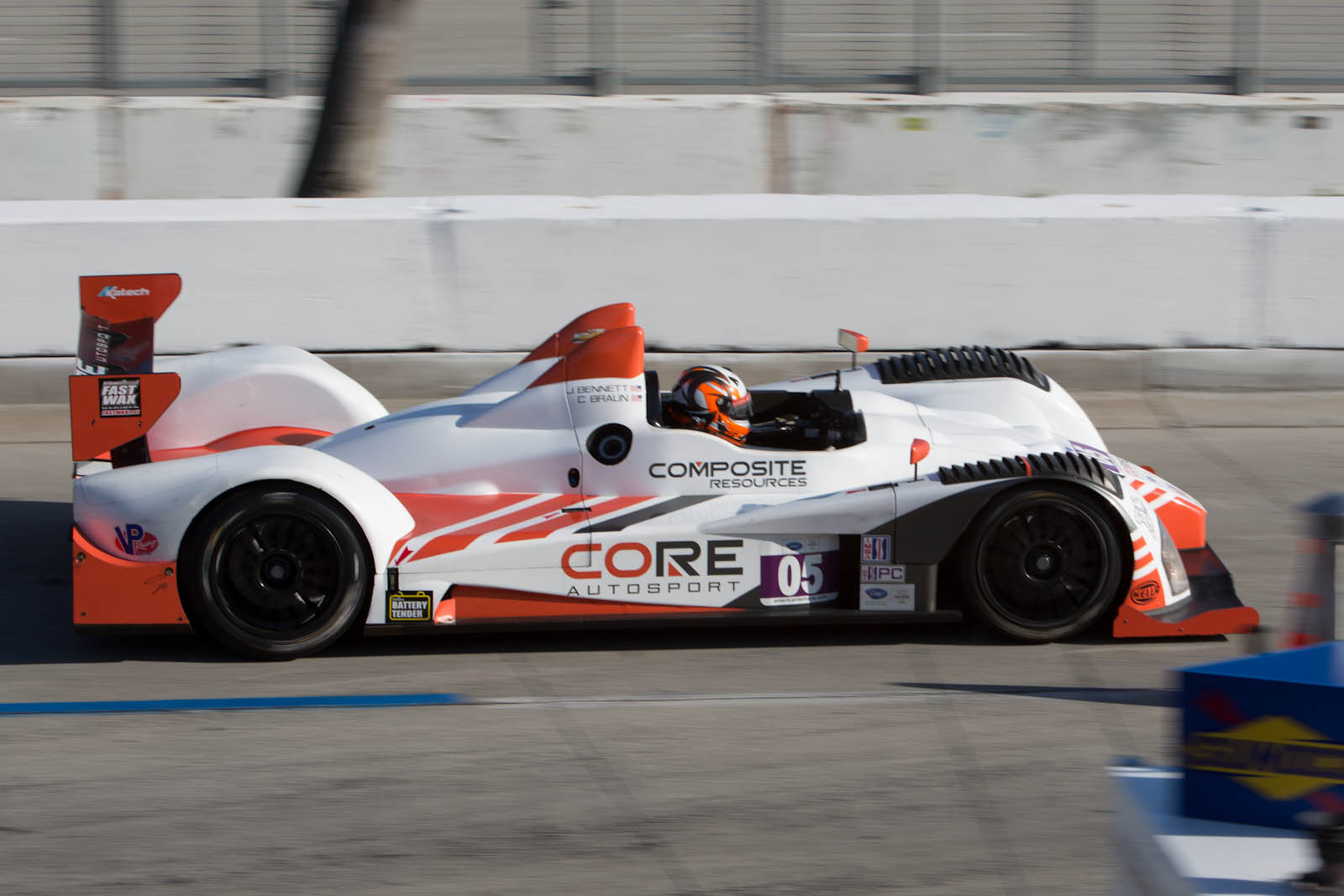 Jon Bennett driving the Core Autosport Oreca FLM09-Chevrolet LMPC car at the 2012 American Le Mans Series at Long Beach.